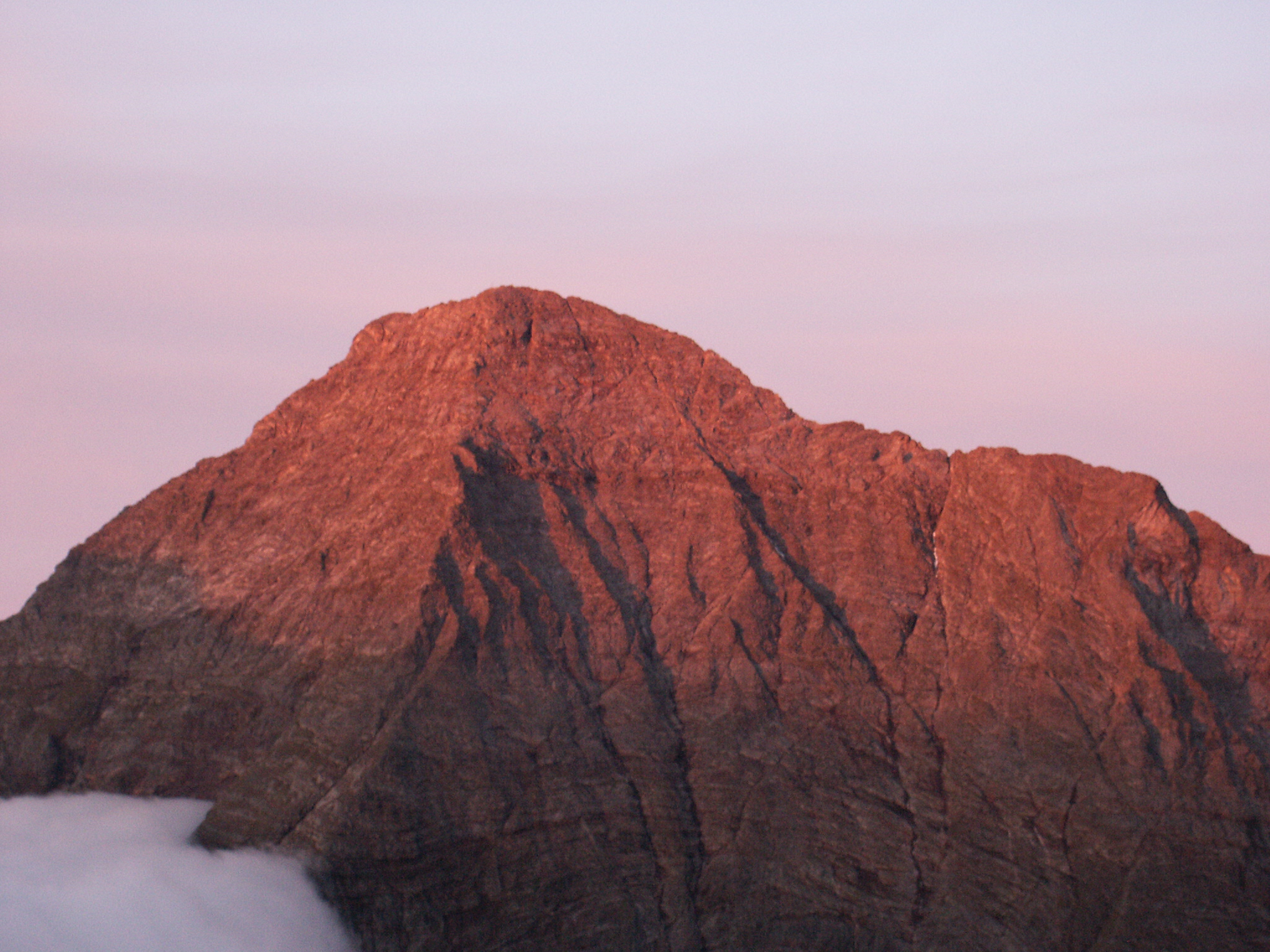 Hochgolling, Styria, DCF 1.0